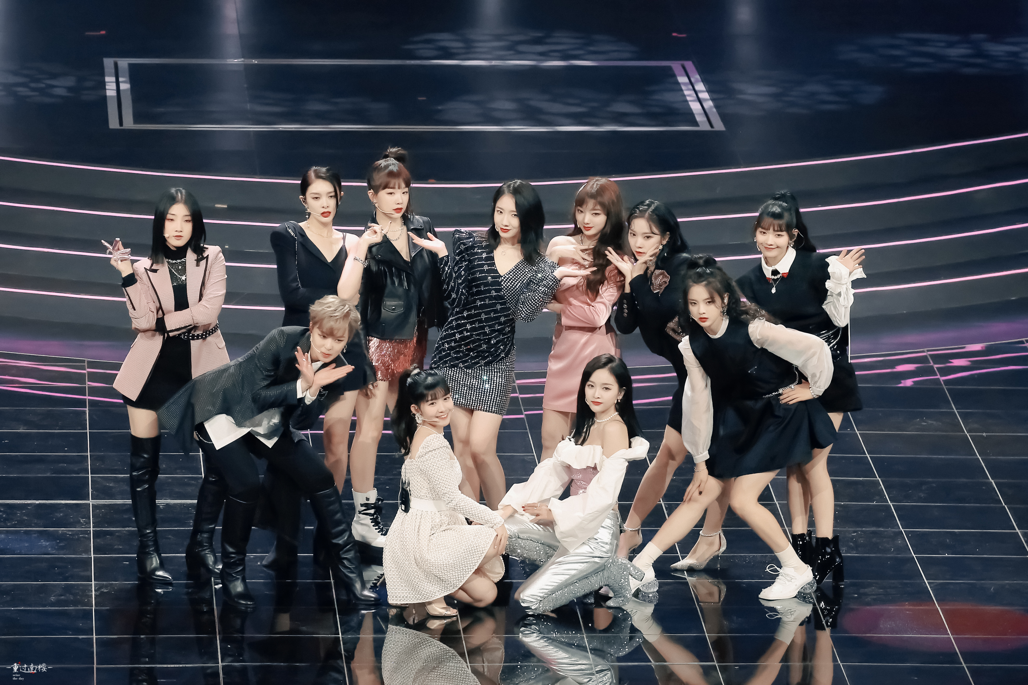 Rocket Girls 101 on Weibo night on January 11, 2020.